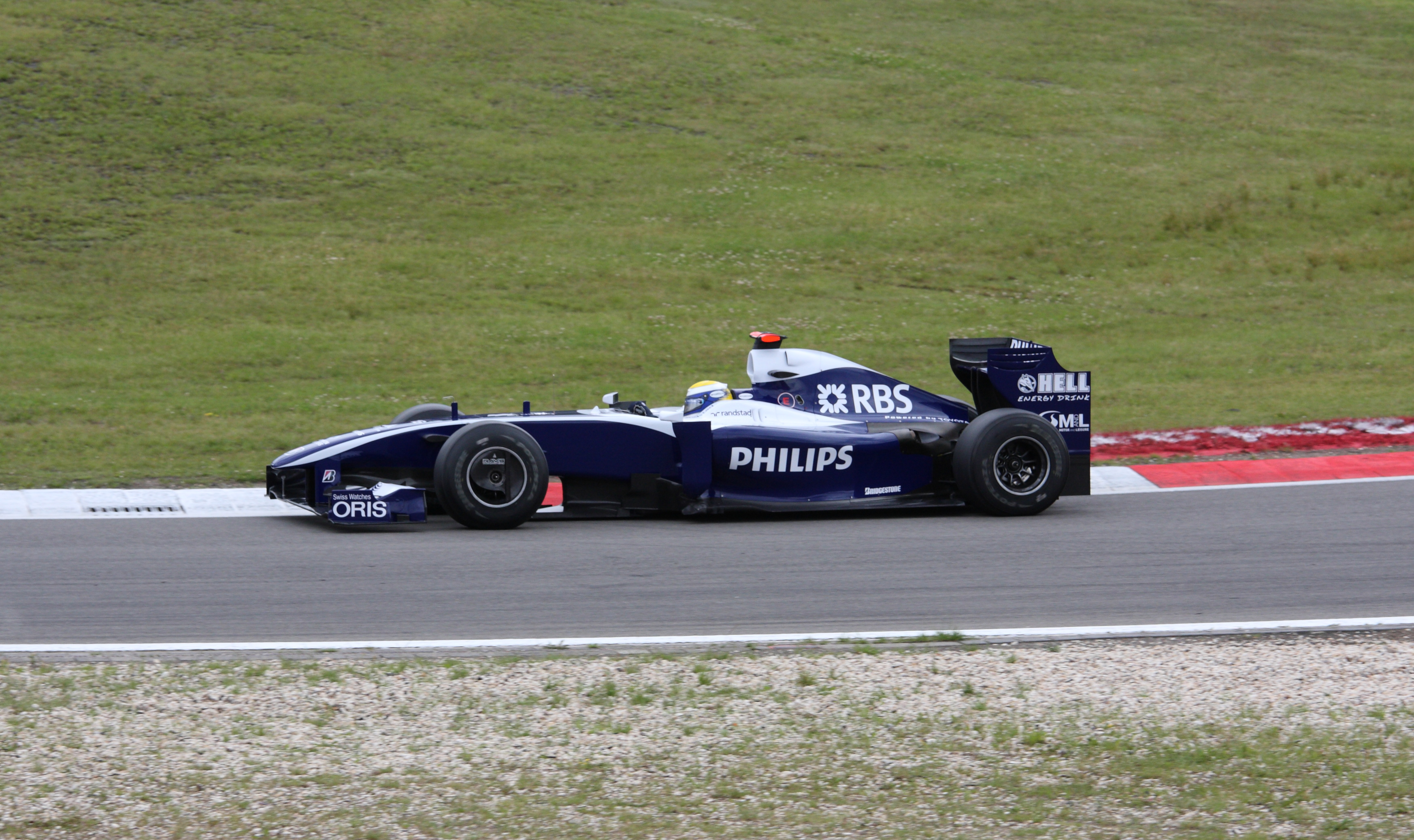 Nico Rosberg driving for WilliamsF1 at the 2009 German Grand Prix.